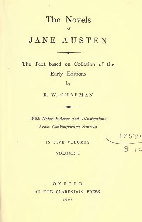 Title page from the first volume of Jane Austen's collected works, edited by R. W. Chapman; the first scholarly edition of any English novelist